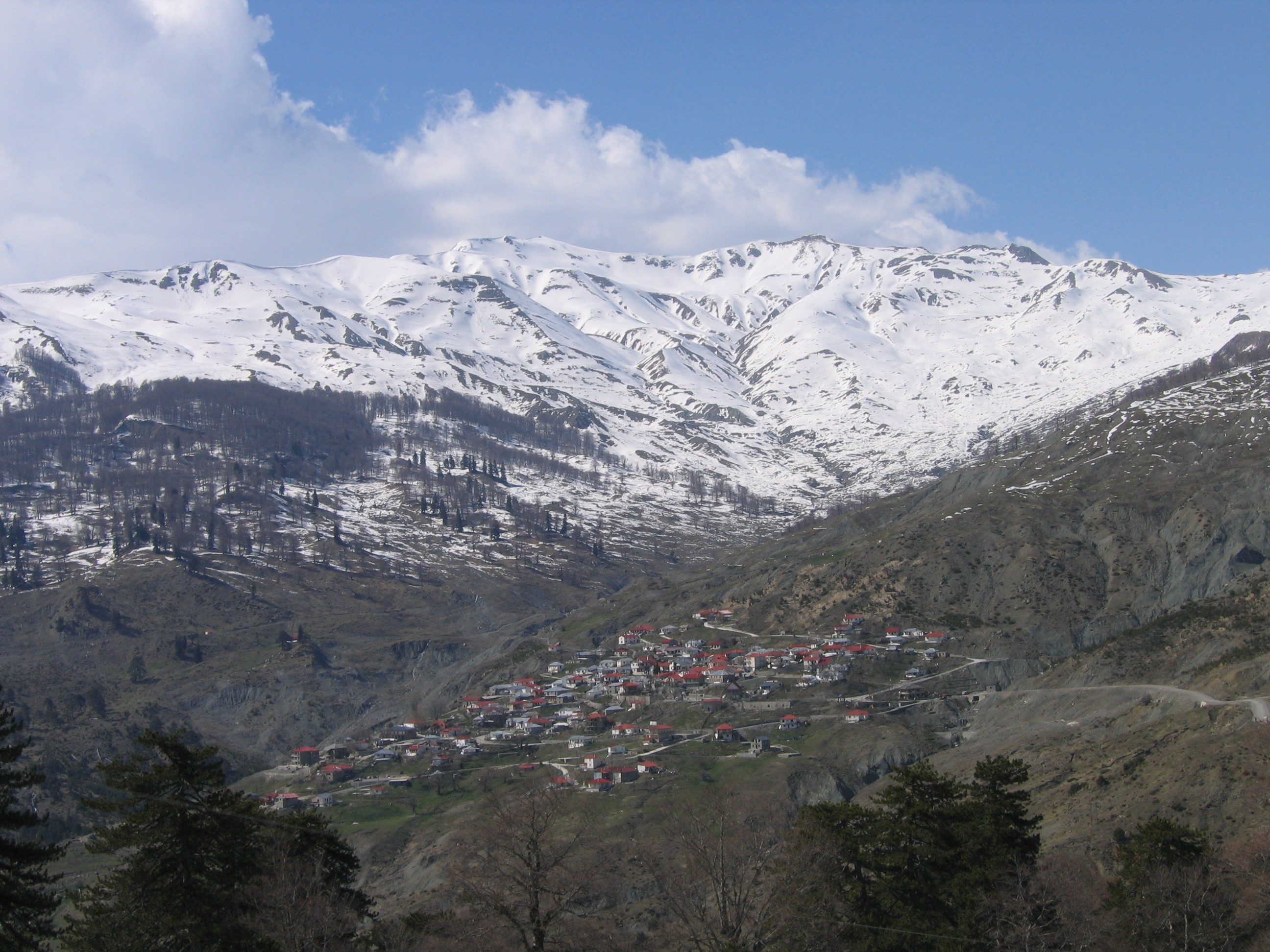 View on Aetomilitsa village, Ioannina prefecture, Greece. Peaks of Grammos mountain visible in the background.